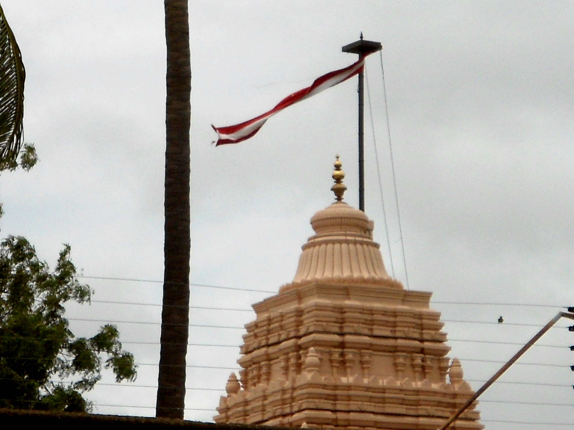 Kulpakji also Kolanupaka Temple is a Jain shrine at the village of Kolanupaka in Nalgonda district, Andhra Pradesh, India